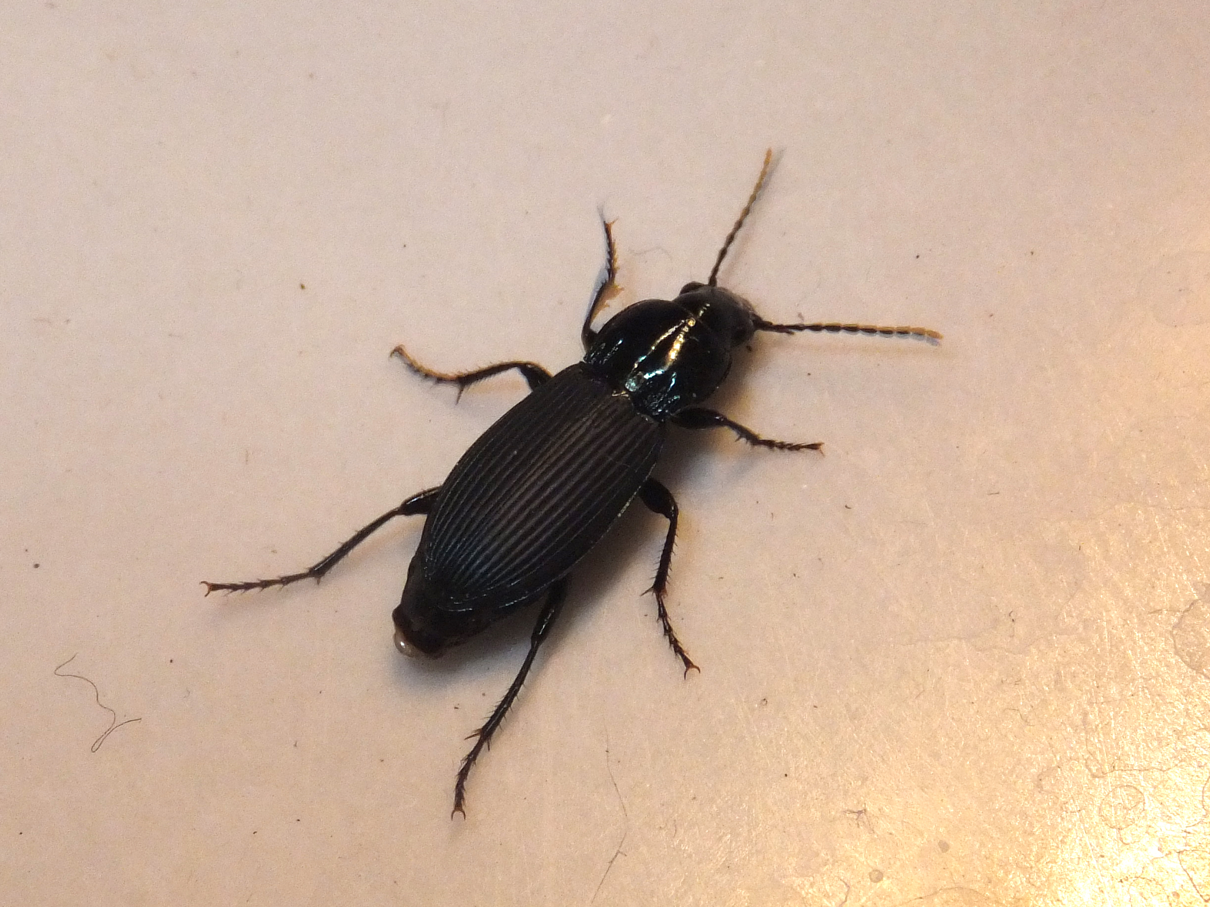 Poecilus lepidus gressorius photographed in a house of Piazzo (Segonzano, Italy)